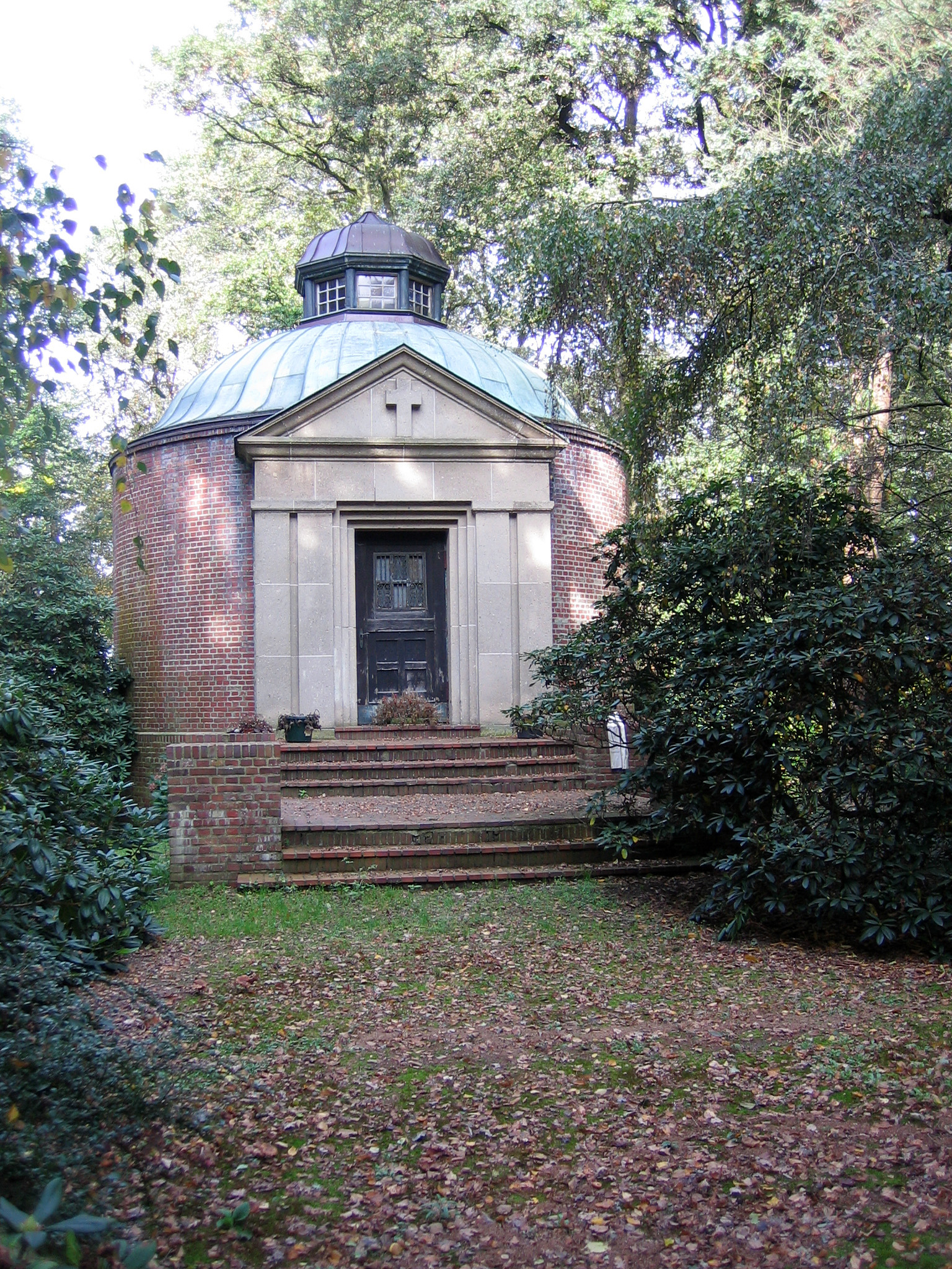 Mausoleum Driftsethe SG Hagen